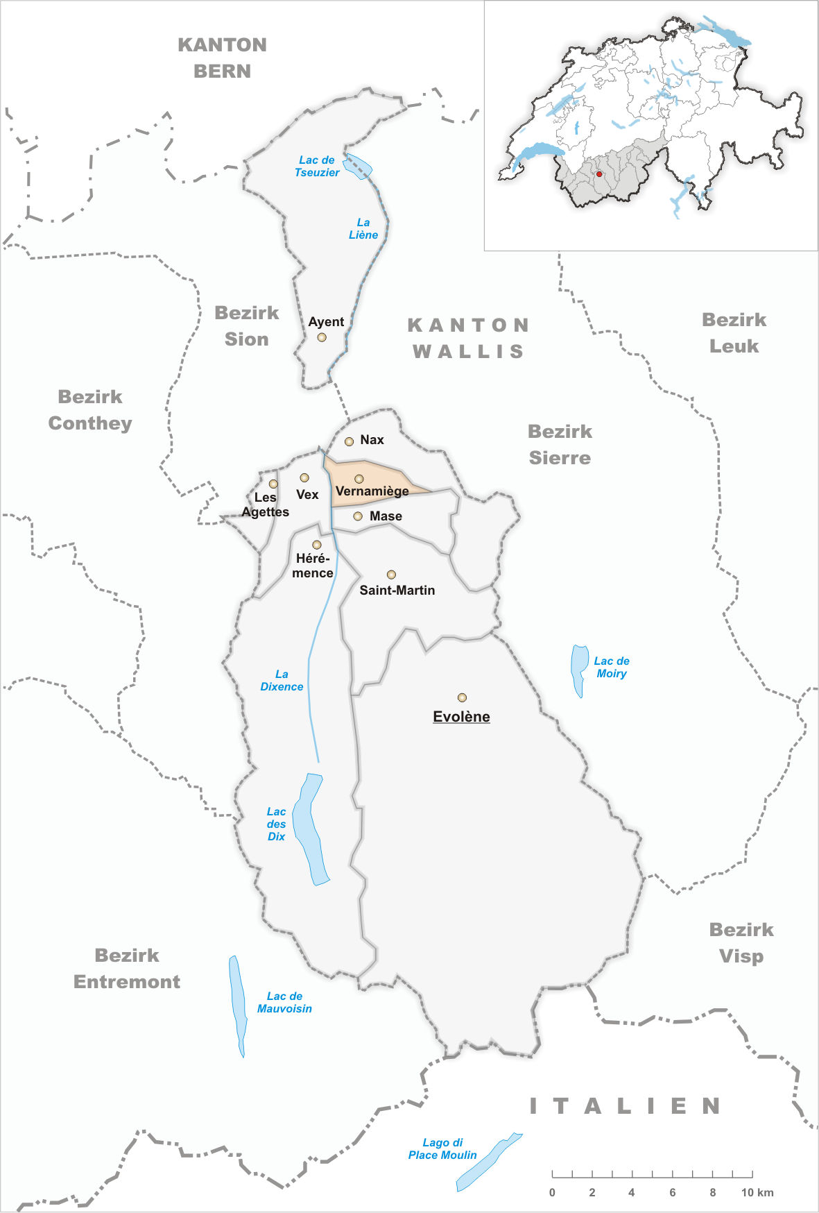 Municipality Vernamiège